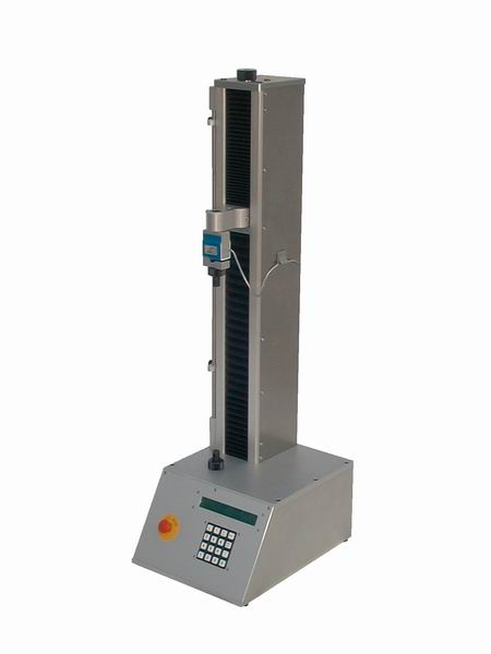 Mechanical test system for testing materials and product designs for quality control applications.